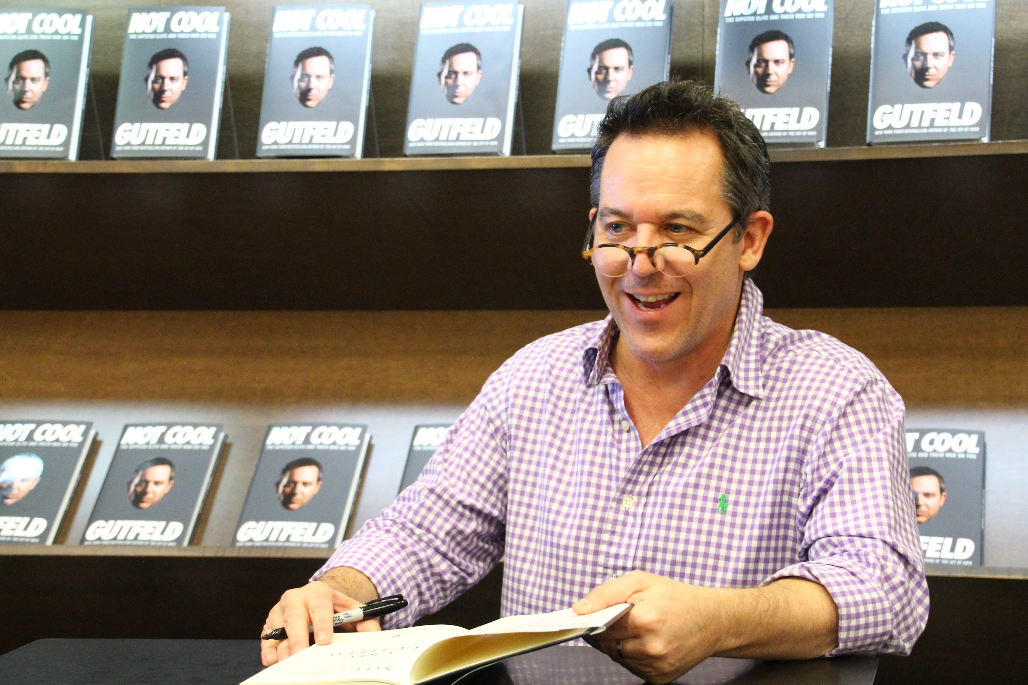 Greg Gutfeld at a book signing for Not Cool.